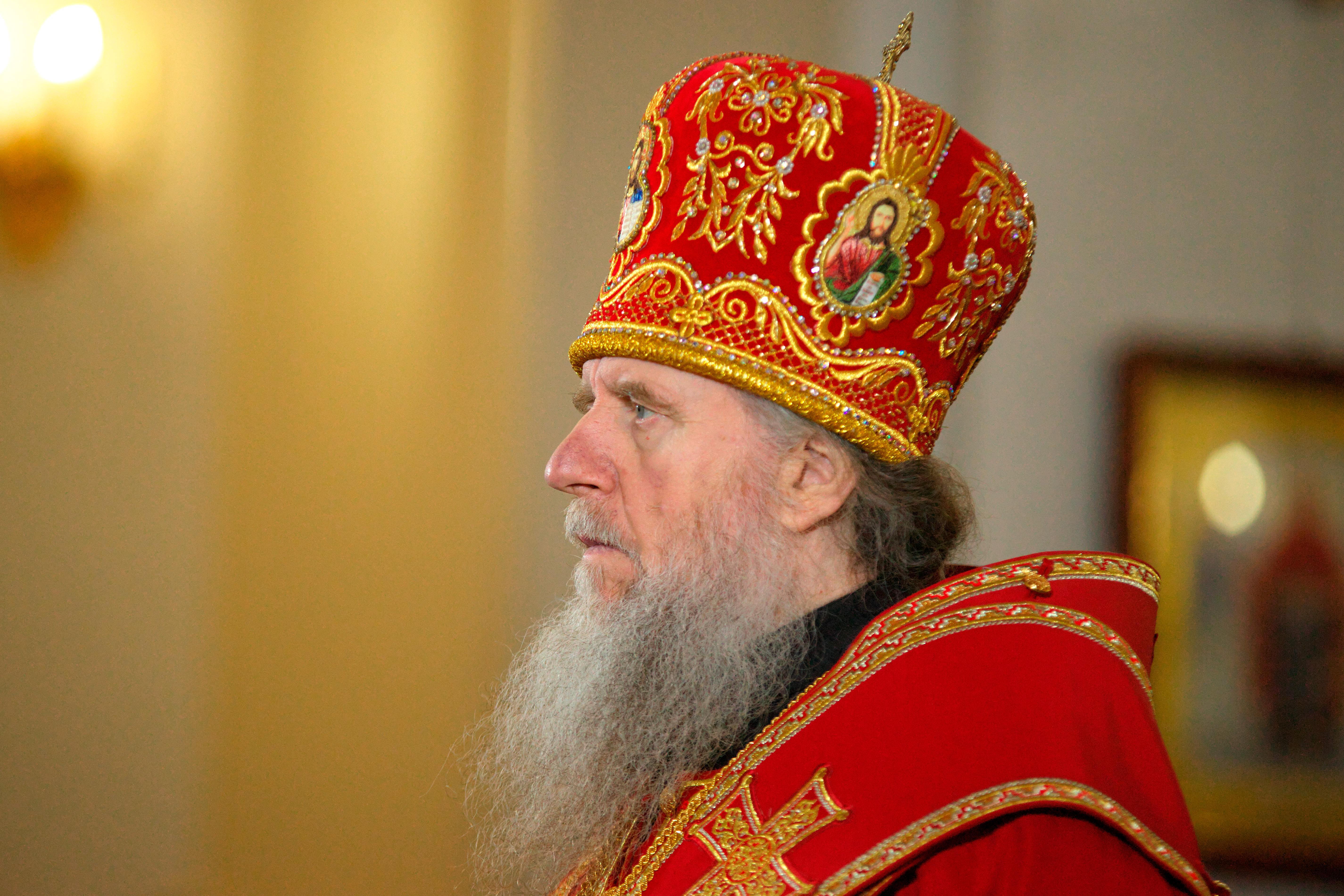 Archbishop of Vitebsk and Orsha Dimitry